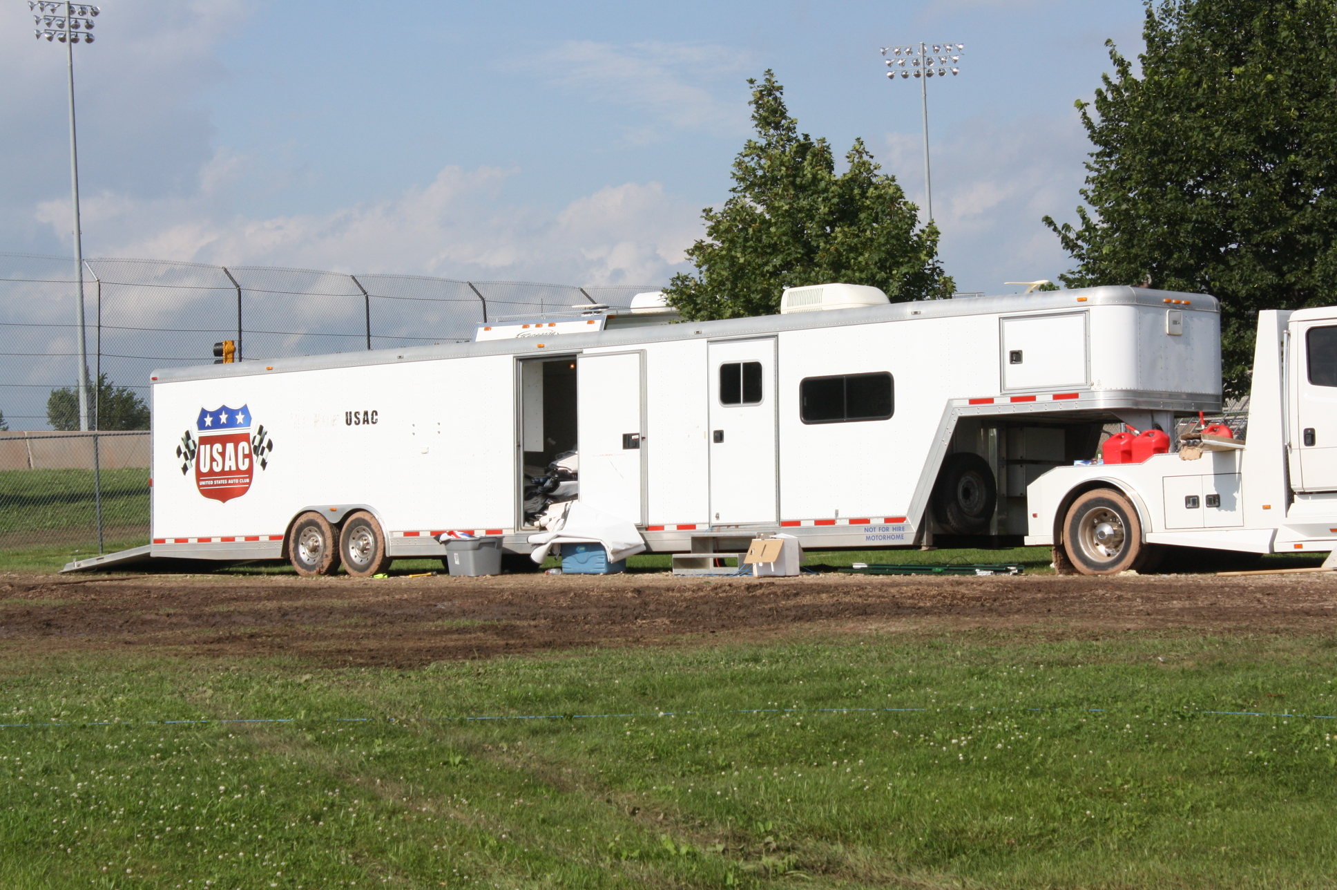 The trailer for sanctioning body United States Auto Club at the Traxxas TORC Series off-road racing event at Oshkosh, Wisconsin.